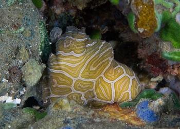 Psychedelic frogfish (Histiophryne psychedelica). For a higher resolution, contact David Hall [1]. This photo illustrates the frogfish squeezing into a tight hole.